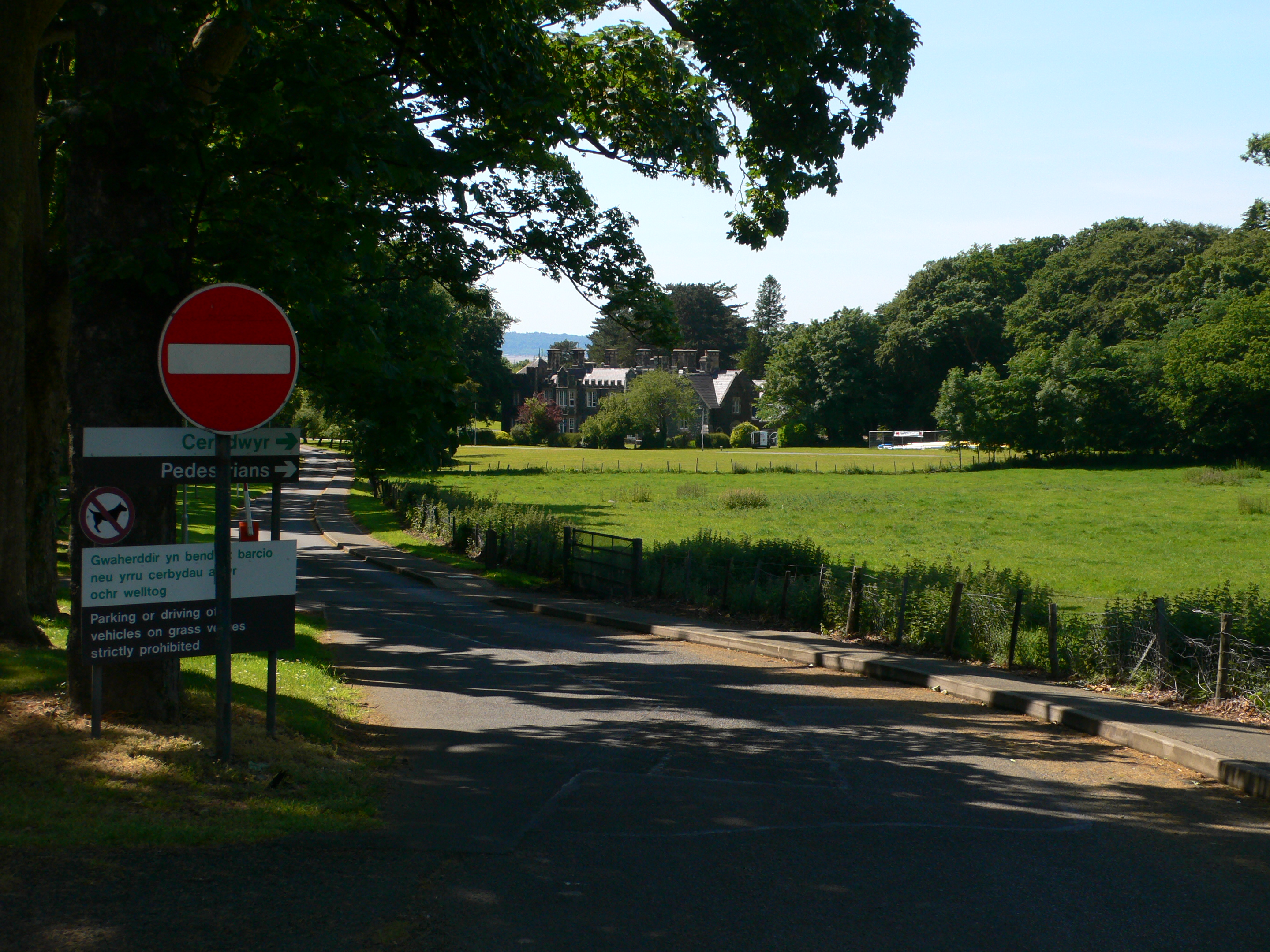 Road from Bryn-y-Neuadd Hospital